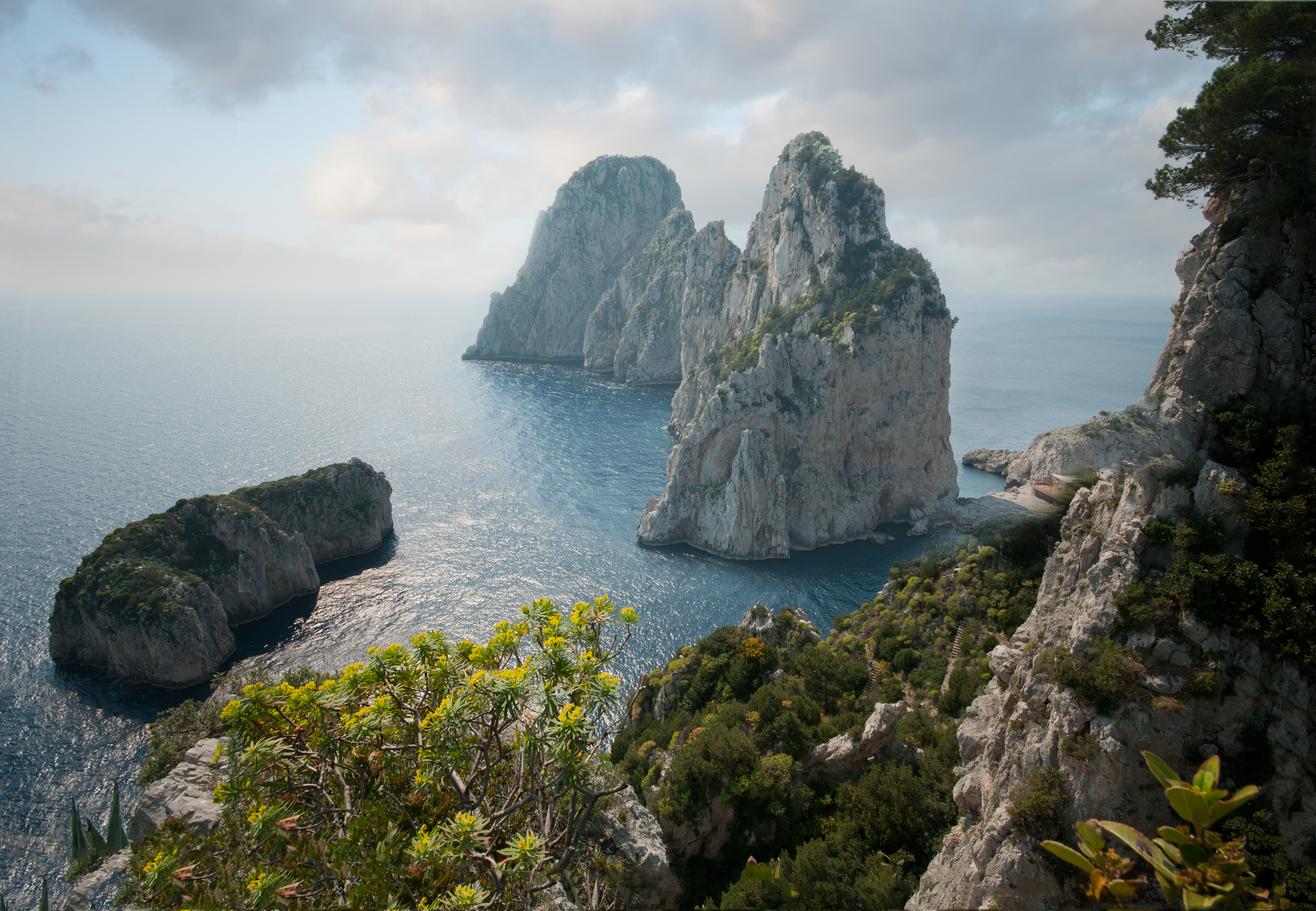 The Faraglioni of Capri, Italy, three geological stacks that have survived earthquakes and landslides.